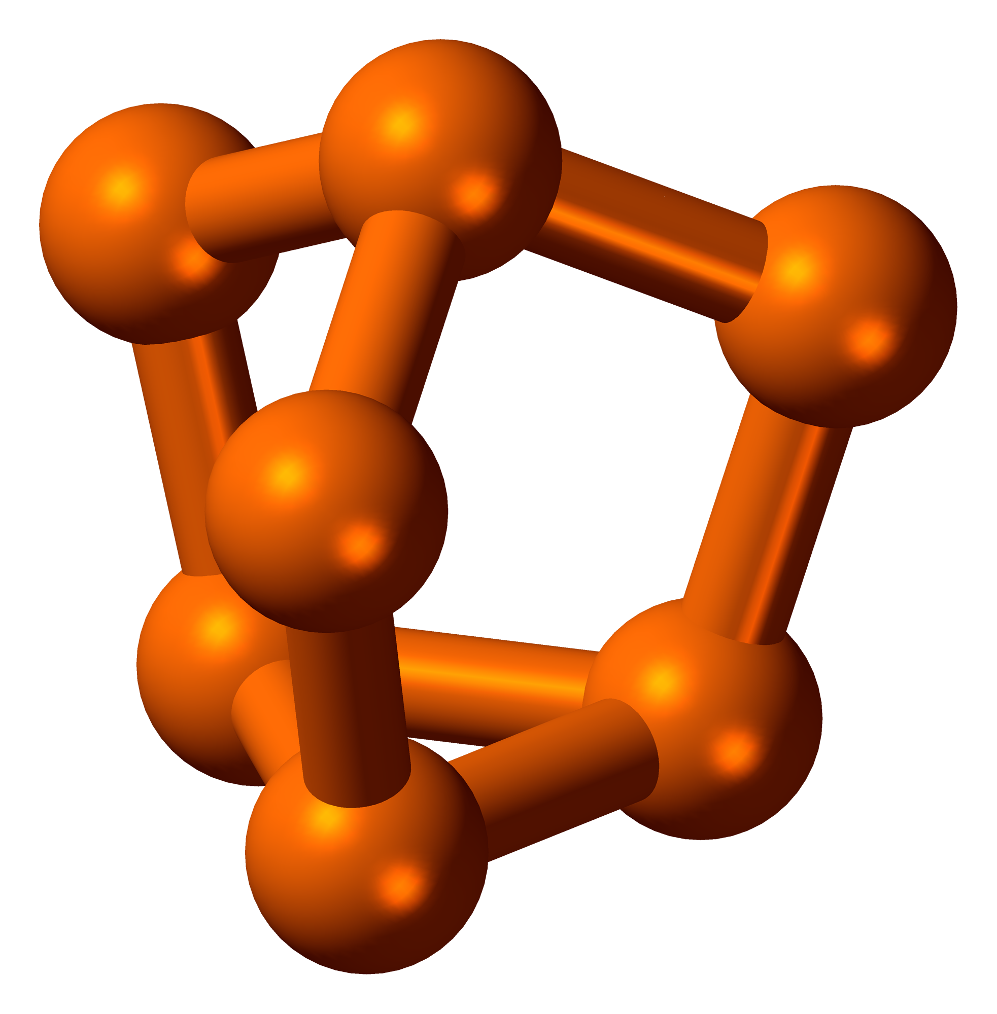 Ball-and-stick model of the anion with the formula P73-, one of several higher phosphide ions. Colour code: Phosphorus, P: orange